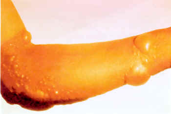 Blister arm because a Blister agent